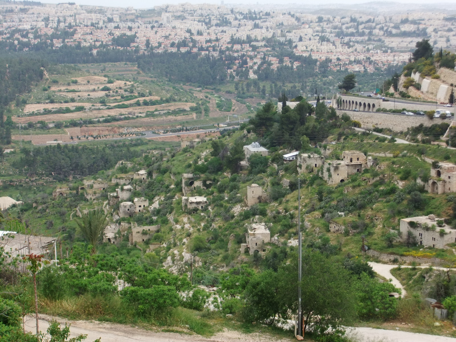 Lifta from the entrance to Jerusalem